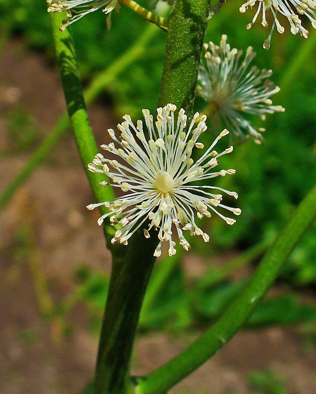 Actaea racemosa, Ranunculaceae, Black Cohosh, Black Bugbane or Black Snakeroot, Fairy Candle, flower. Stutensee, Germany